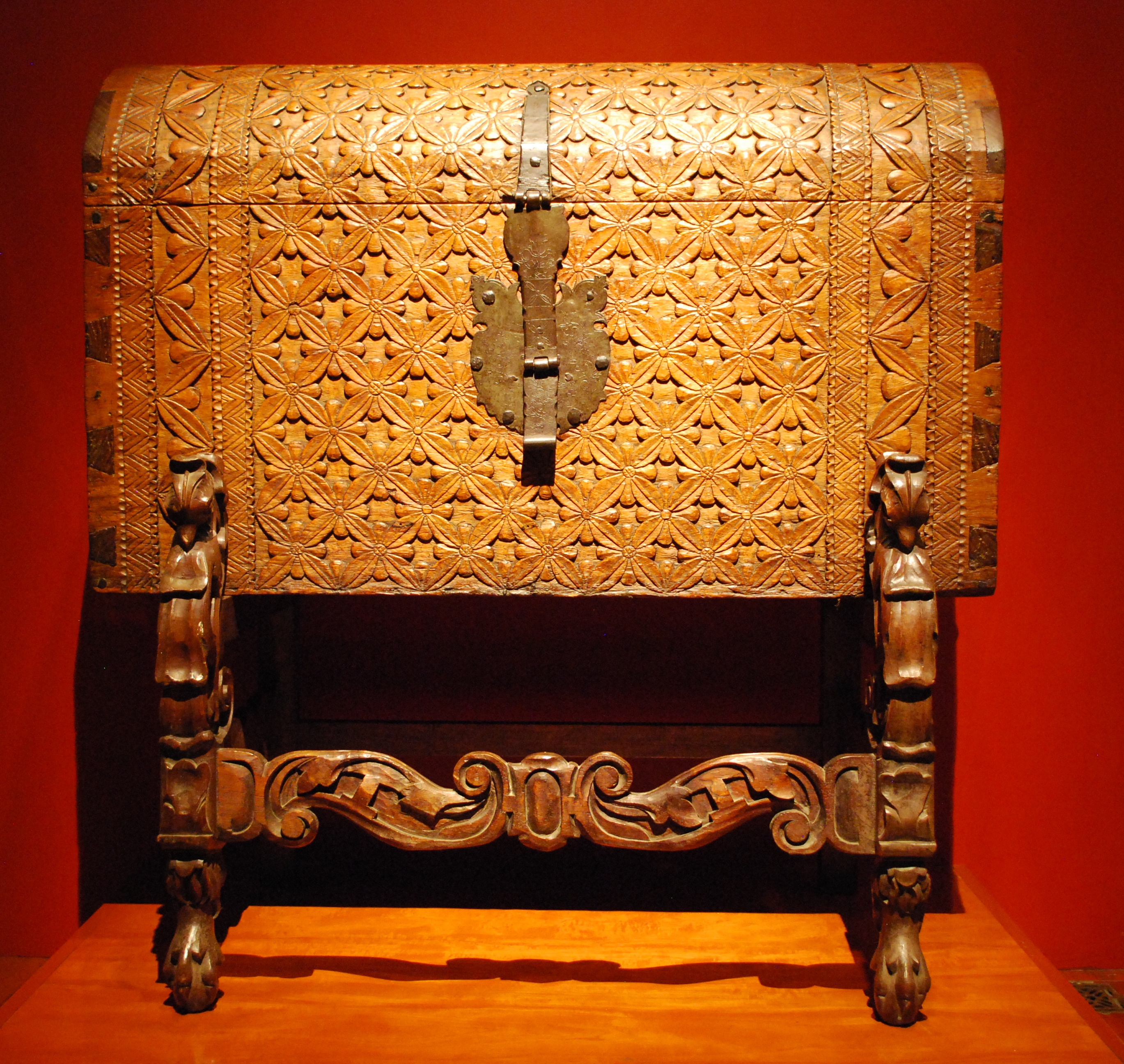 Colonial era chest at the Franz Mayer Museum in Mexico City